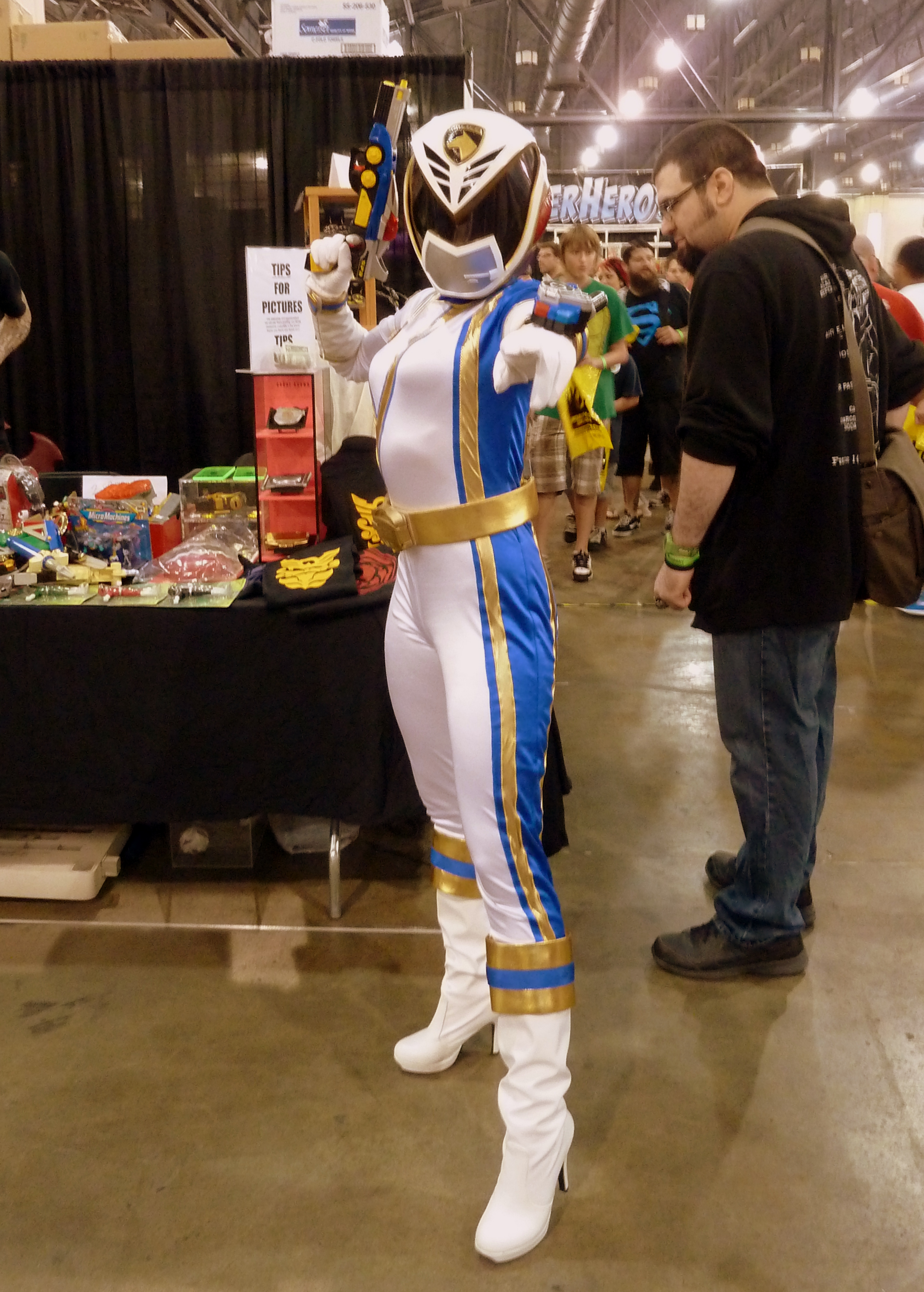 Cosplay of the S.P.D. Omega Ranger (from Power Rangers S.P.D.) at Wizard World Philadelphia 2013.